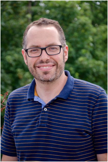 Photo of Andre Neves for Veblen Award